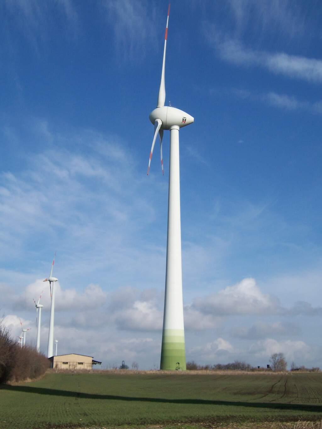 Enercon E-112 wind energy converter in Egeln/Germany.